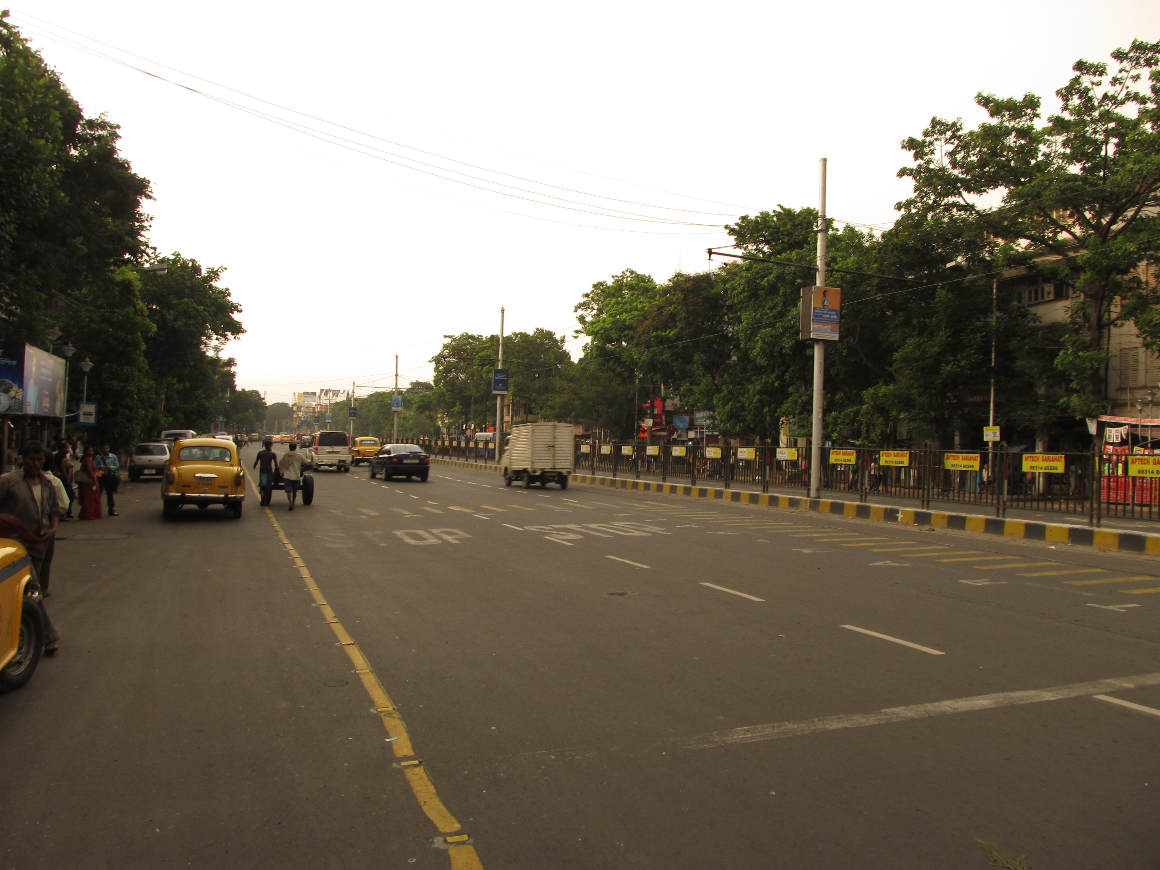 Roads in Kolkata.